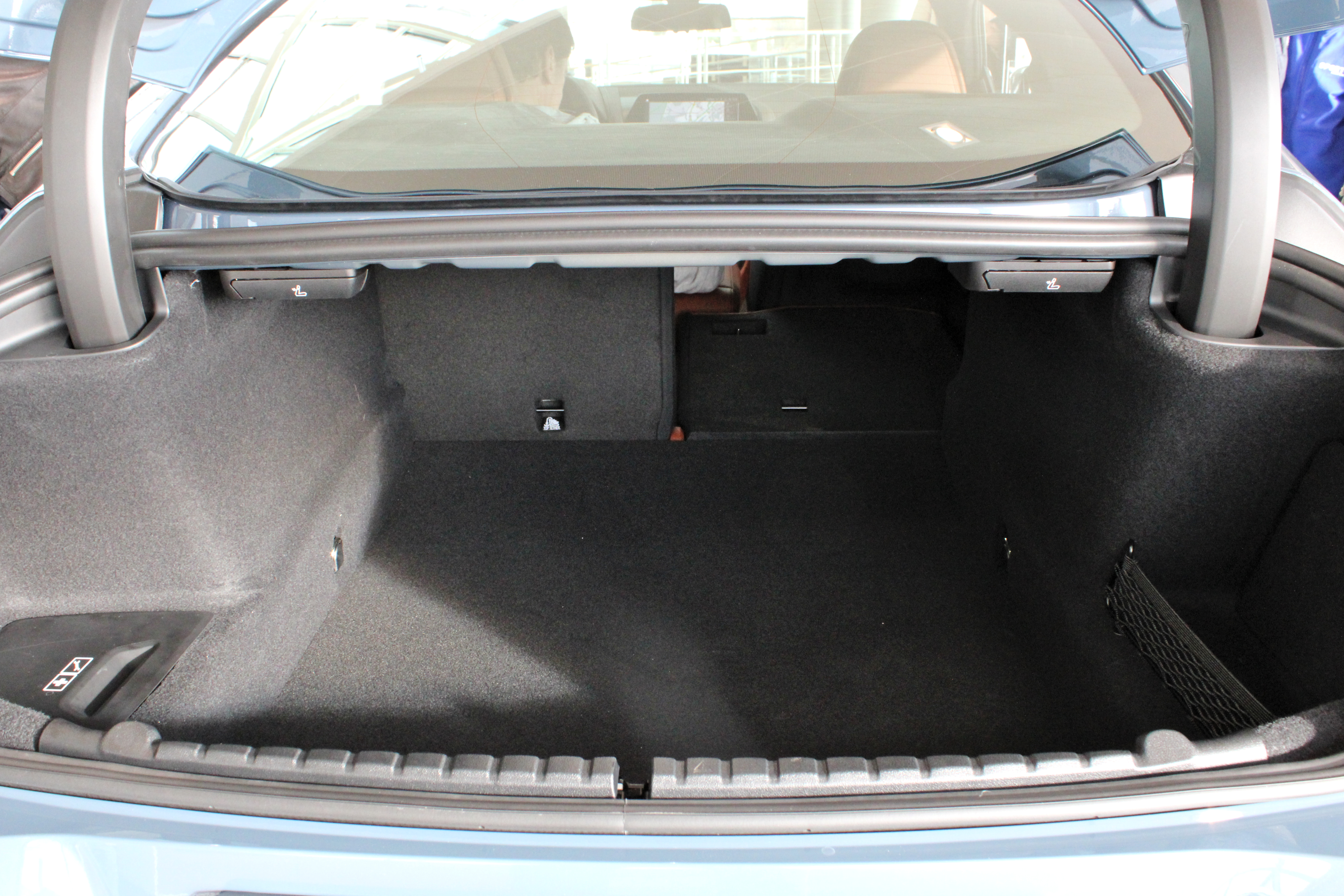 BMW M850i Coupe in Stuttgart-Vaihingen